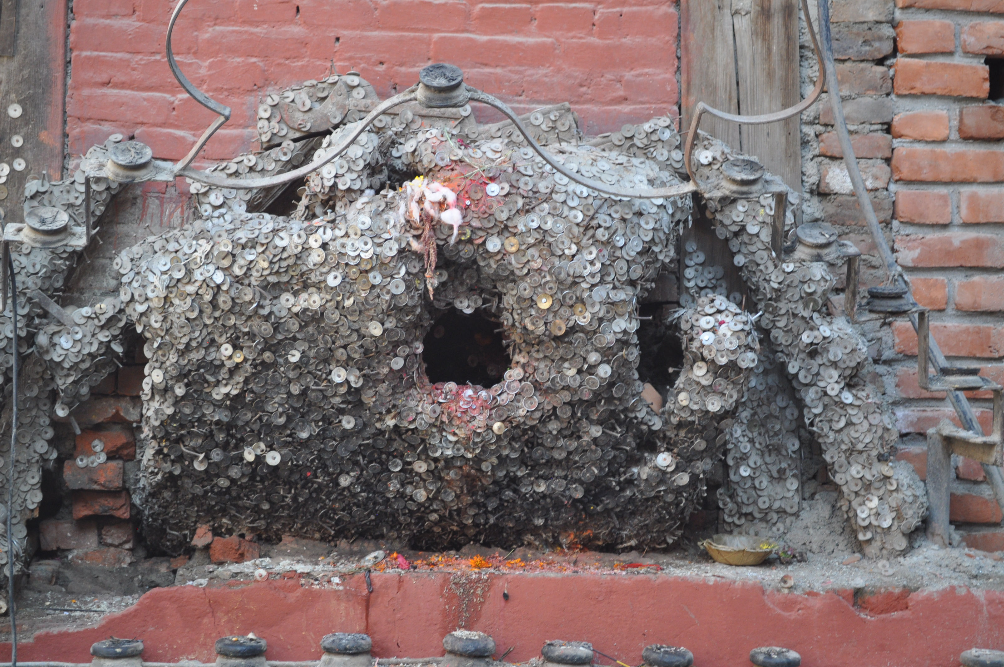 Wasya dyo is said to be manifestation of god bhairava. Once the god came to view the dance of naradevi. He liked the dance and decided to stay longer and hence took a form of a great tree which is now worshipped. This shrine existed since the lichchavi era from 2nd to 8th century.It is said that if any dental problems happen then people offer rice with betel nuts in clay bowl and they nail a coin in the trunk. People worships the shrine because they believe that if they nail a coin, dental problems will be solved.